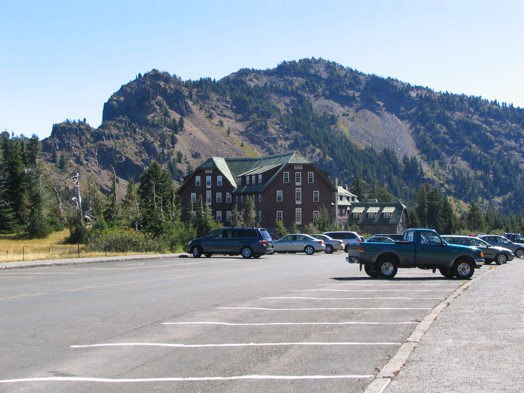 View of the Lodge from the west in Crater Lake National Park. Garfield peak is in the background. Picture taken 18 September 2005.